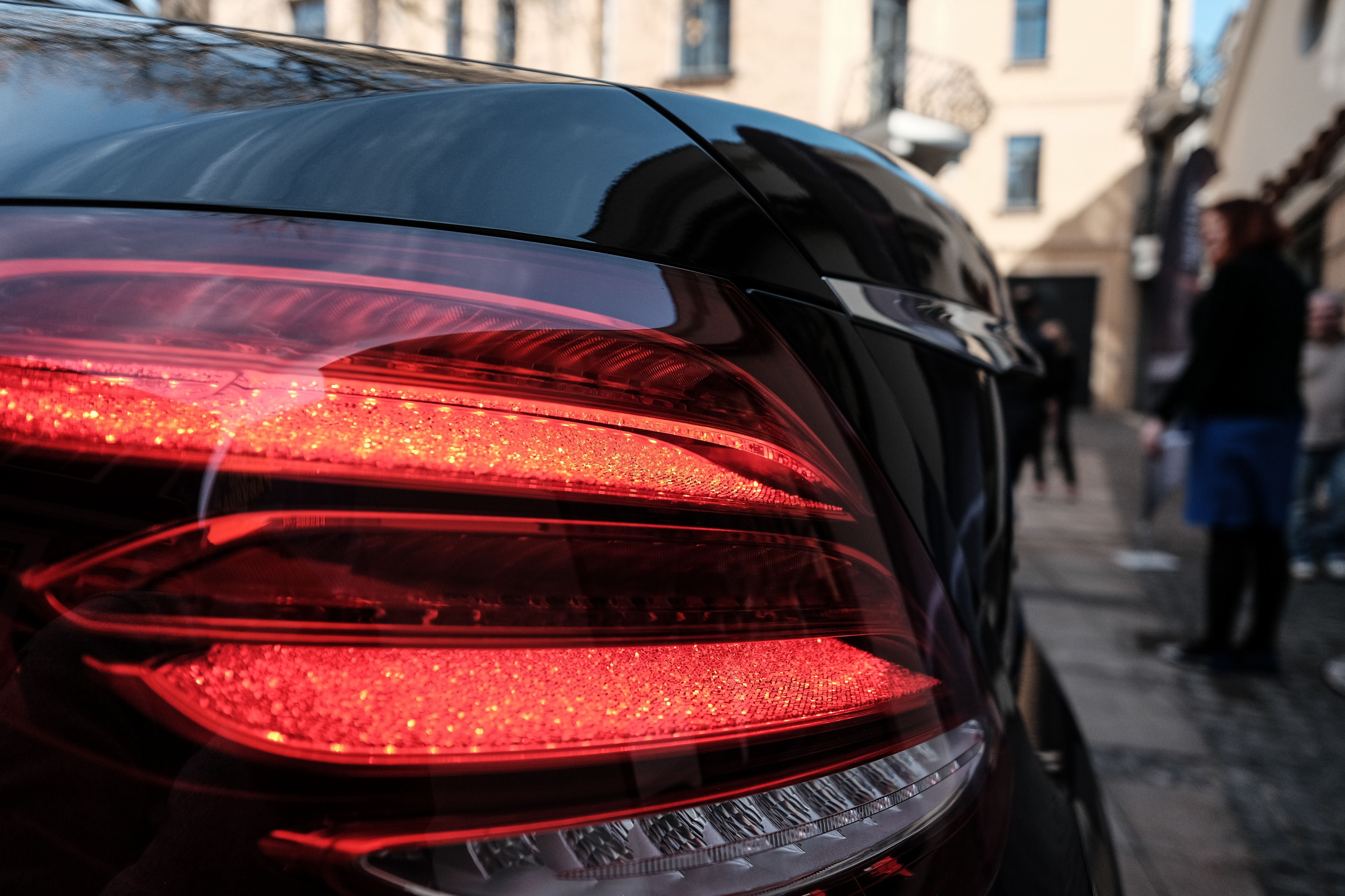 Mercedes-Benz W213 (E-class) rear lights, 2016